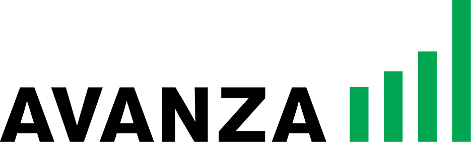 Avanza logotyp